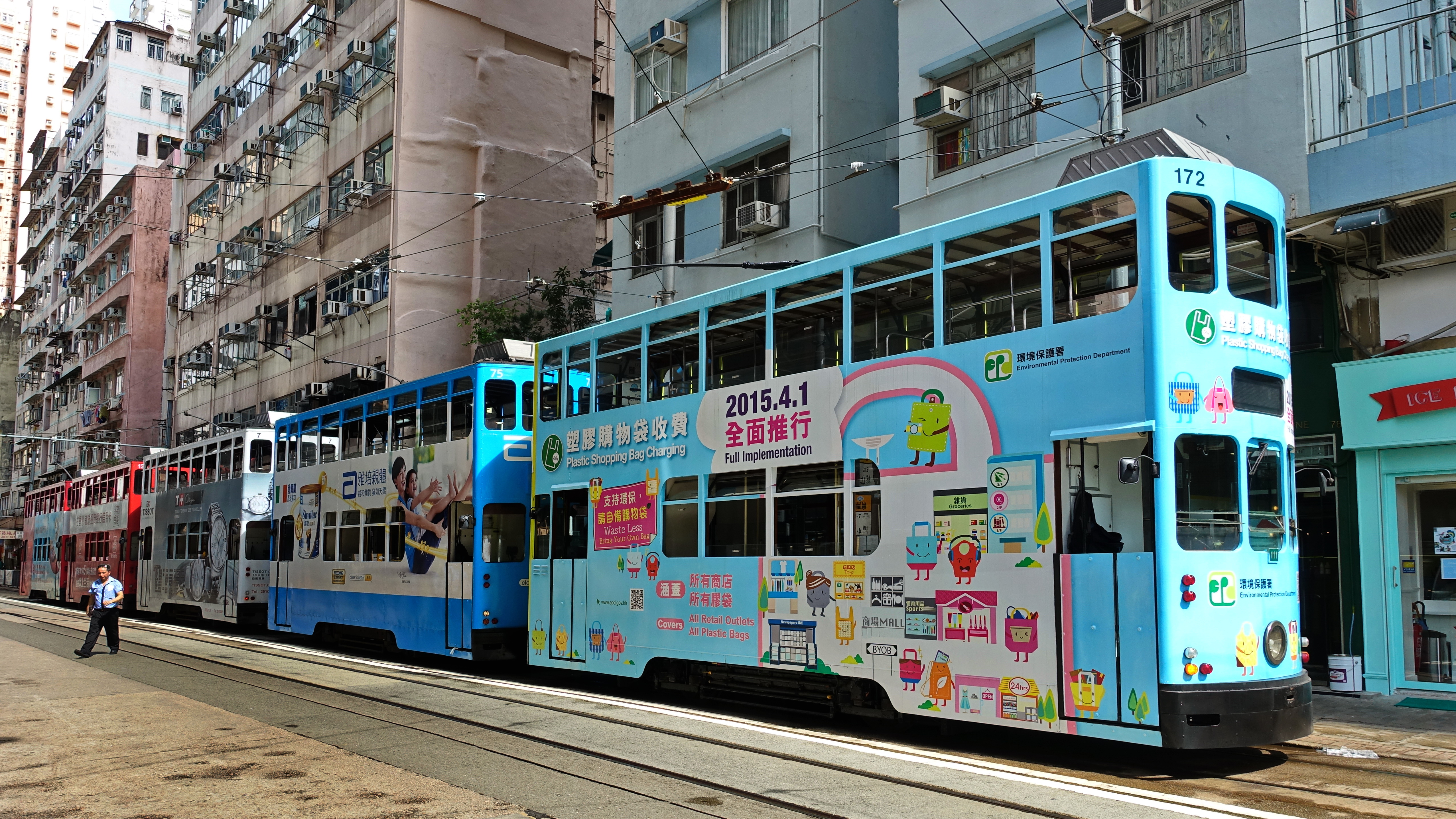 Trams lining up on Catchick Street near the Kennedy Town Terminus, Hong Kong.